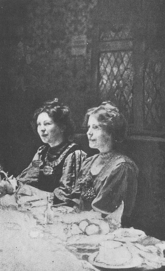 Christabel Pankhurst (left) and Annie Kenney